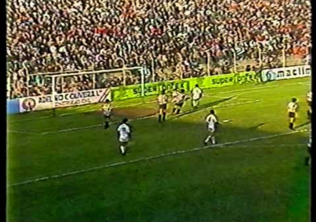 Varzim vs Rio Ave